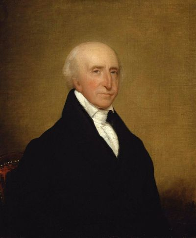 Benjamin Pickman. about 1843. By Chester Harding, American, 1792–1866. 77.15 x 63.82 cm (30 3/8 x 25 1/8 in.). Oil on canvas. Museum of Fine Arts, Boston.